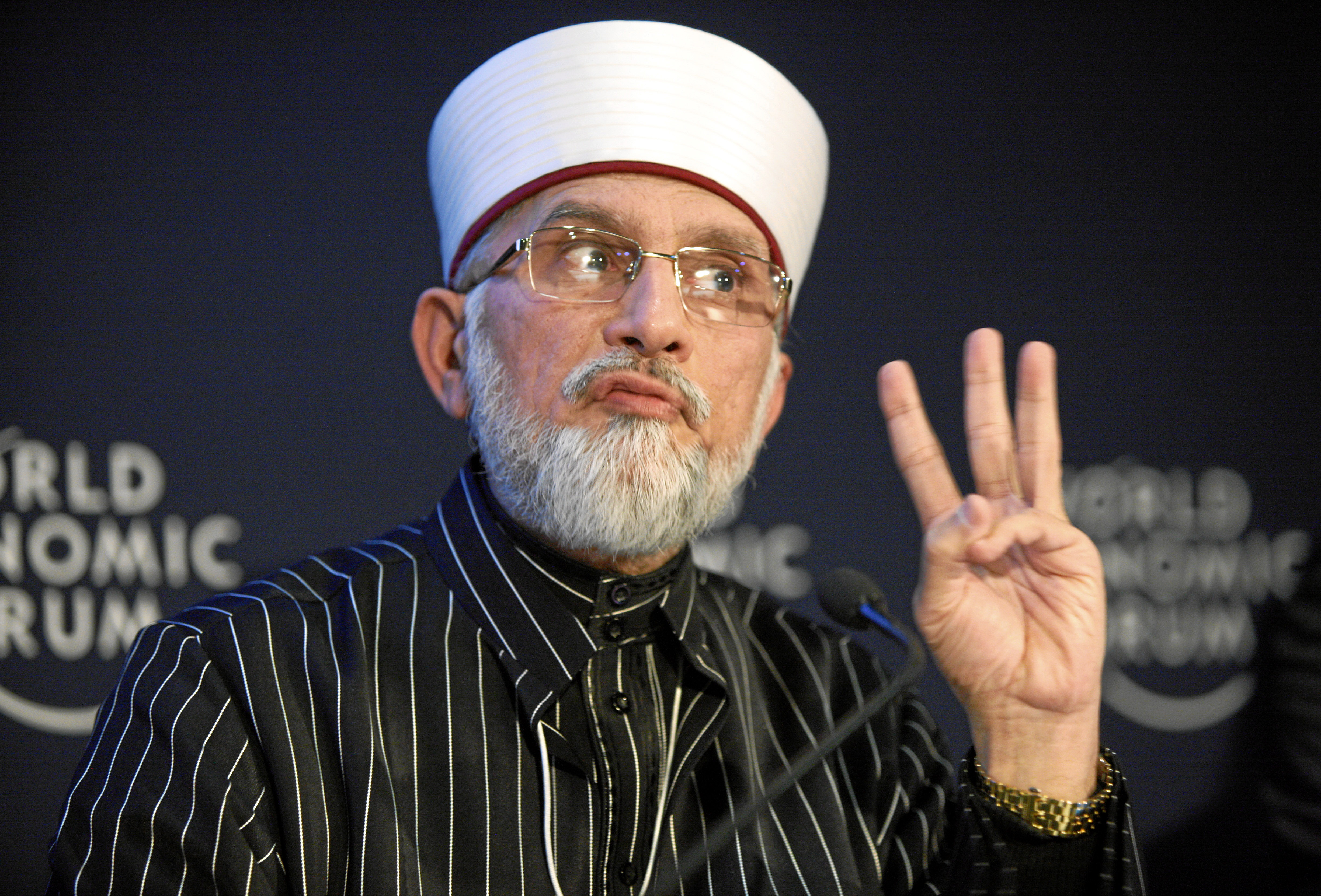 DAVOS/SWITZERLAND, 27JAN11 - Muhammad Tahir-Ul-Qadri, Founder, Minhaj-ul-Quran International, United Kingdom is captured during the session 'The Reality of Terrorism' at the Annual Meeting 2011 of the World Economic Forum in Davos, Switzerland, January 27, 2011.